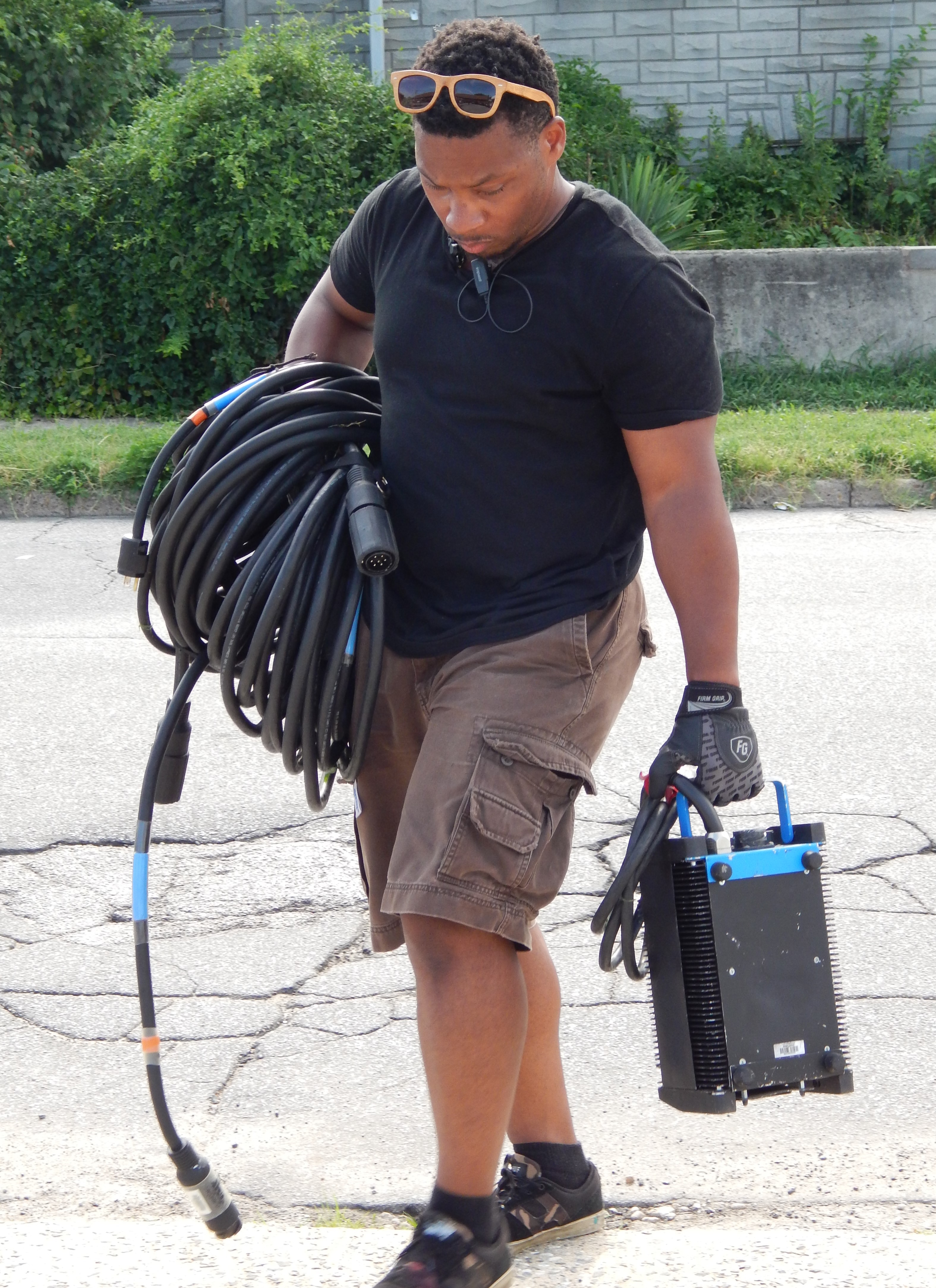 Photos of actors & film crew working on the movie "Sollers Point" - parts of which were filmed in Dundalk, Md.. The photographs feature people in the crew working together, plus their movie making gear. I've worked in a various places and jobs, where I learned the dynamics of working well, hard & safely with a crew. I also learned to make best use of tools/equipment/supplies by appreciating/respecting/maintaining/and (sometimes) even loving that gear what gets the job done and helps people earn good money. You can read about the movie here: To the crew: Consider this album a historical document, and you may be viewing and showing these photographs years, decades from now. What you ain't so happy with today - no one always smiles nice for the camera when they are working so hard - may be something good to have in the future. And your family & friends, today, might be pleased to see you working in your profession. Shots on here are something that would make me proud if any of the people were my relatives or friends. If any shots are good for publication anywhere - with me being credited - email ( ursusdave at yahoo dot com ) the photo number to me, which is in each photo's title. As soon as we can, I will try to get together with Matt or anyone from the crew who can help me add your names to photos you are in. Anyone who does not want to be identified - for a reasonable reason - let us know. If you really, really want something for only you or your family & friends, email the photo number to me. If any of you absolutely do not want a photo seen, for a good reason, send me an email with the photo number. I have edited out many shots already, some just because one person's face is frozen in an unkind shape and any of that stuff that makes people hate photos of themselves. You'z (my Baltimore accent) can find out a lot about me, via one of my many, interlinked, Internet publishings at: .